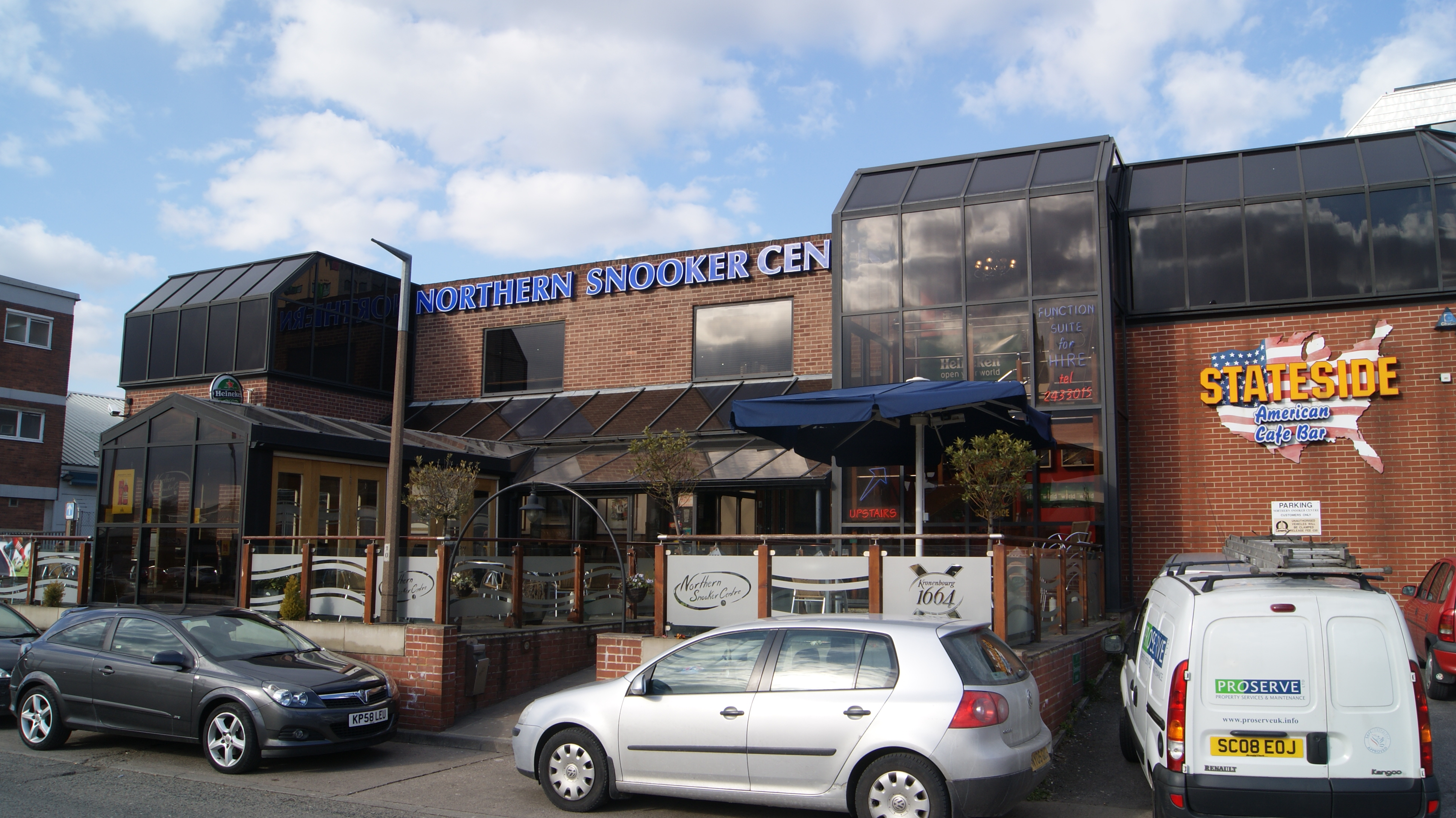 Northern Snooker Centre, Kirkstall Road, Leeds, West Yorkshire. Taken on the afternoon of Saturday the 30th March 2013.